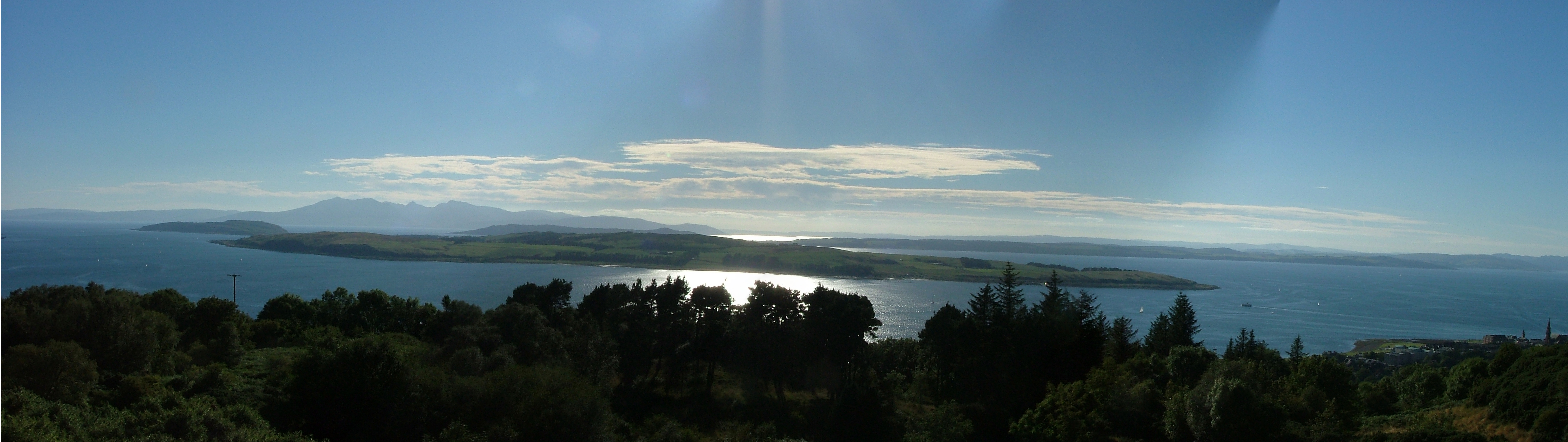 Firth of Clyde Islands panorama taken from the Haylie Brae viewpoint. Great Cumbrae dominates the image with Little Cumbrae to the left. Bute is the long low line beyond and mountainous Arran sits further back still. The Caledonian MacBrayne ferry can be seen steaming across the water from Largs on the right of the picture.